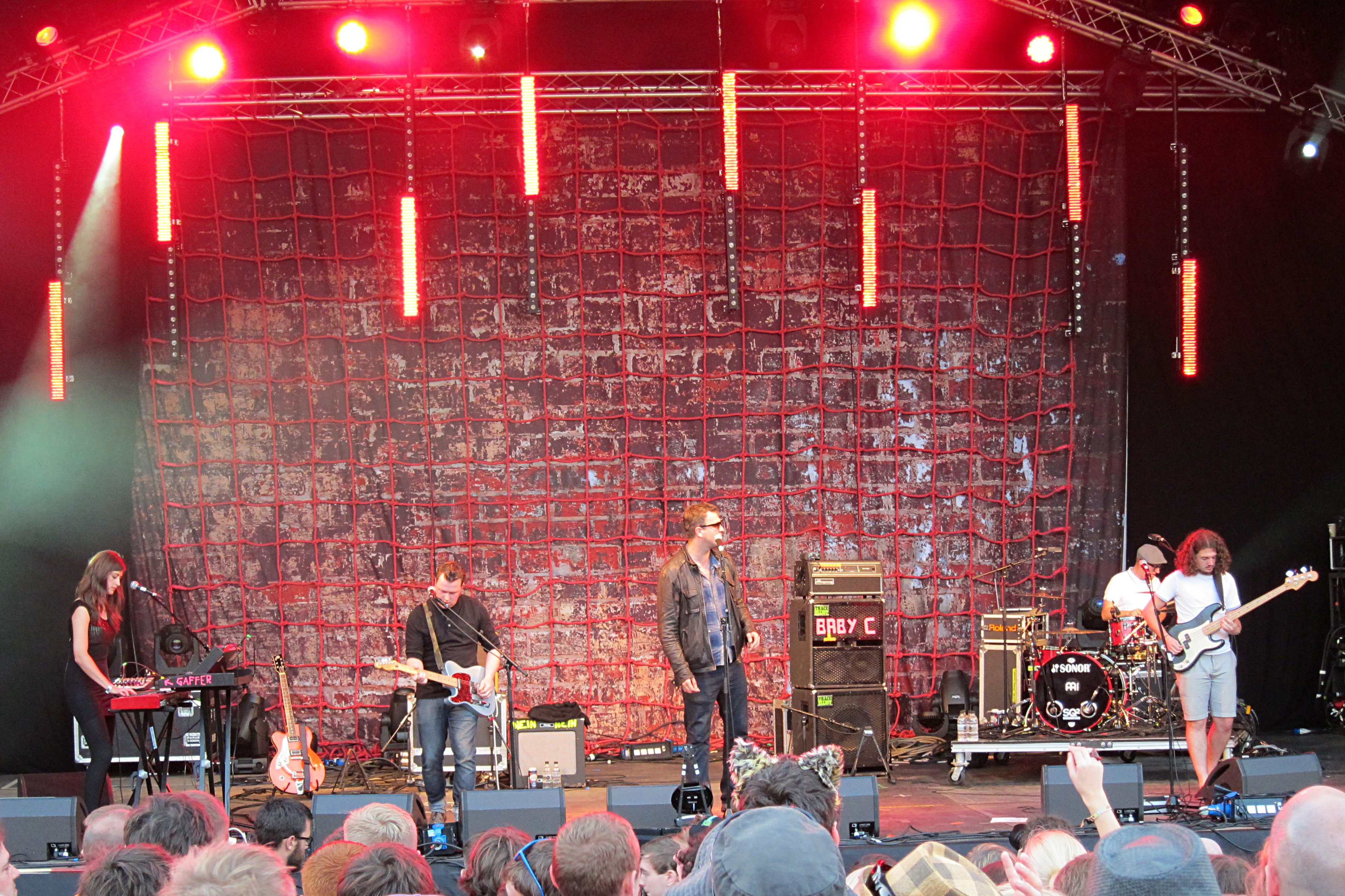 Reverend and the Makers, Main stage, Summer Sundae festival, Leicester, 19 August 2012